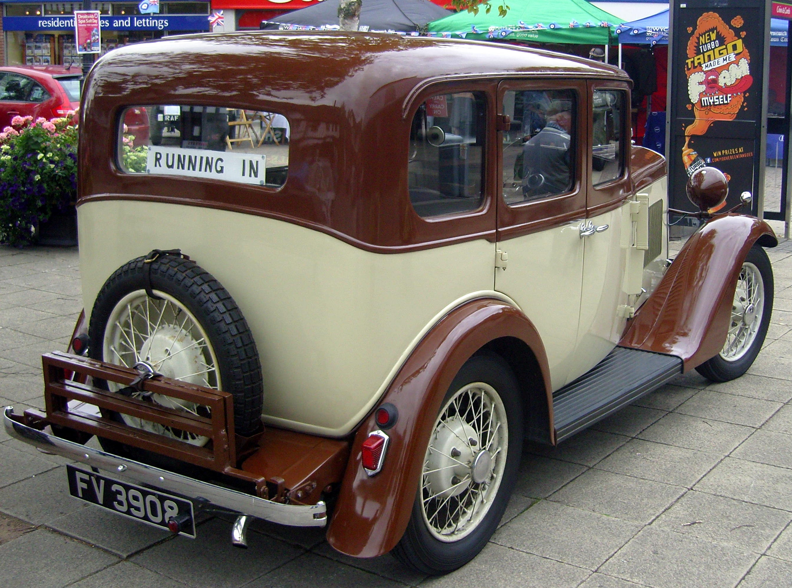 (DVLA) 1056cc first reg 10 August 1933 This photo was taken on September 10, 2011 in Droitwich, England, GB, using a Samsung VLUU NV10, NV10. Photo ref; SNC16294